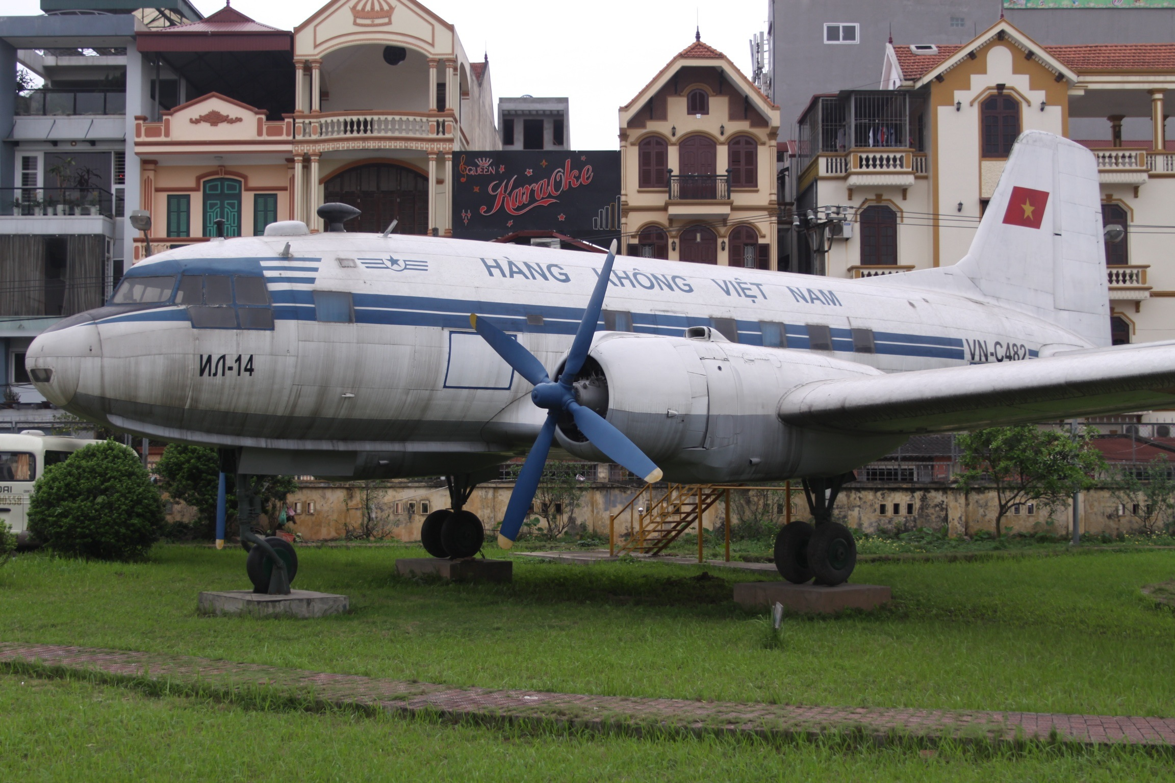 At Hanoi City